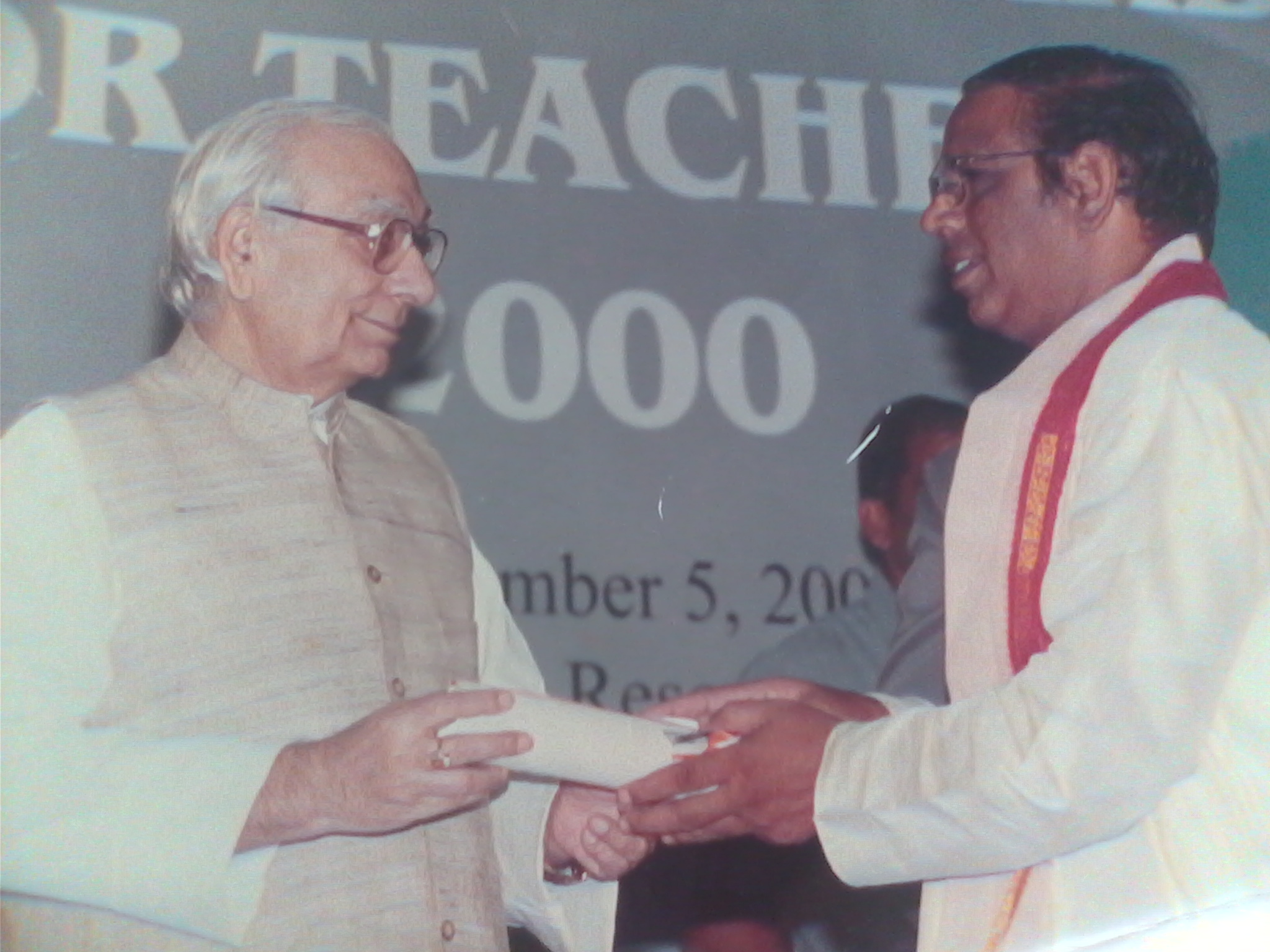 ఉత్తమ ఉపాధ్యాయ అవార్డ్